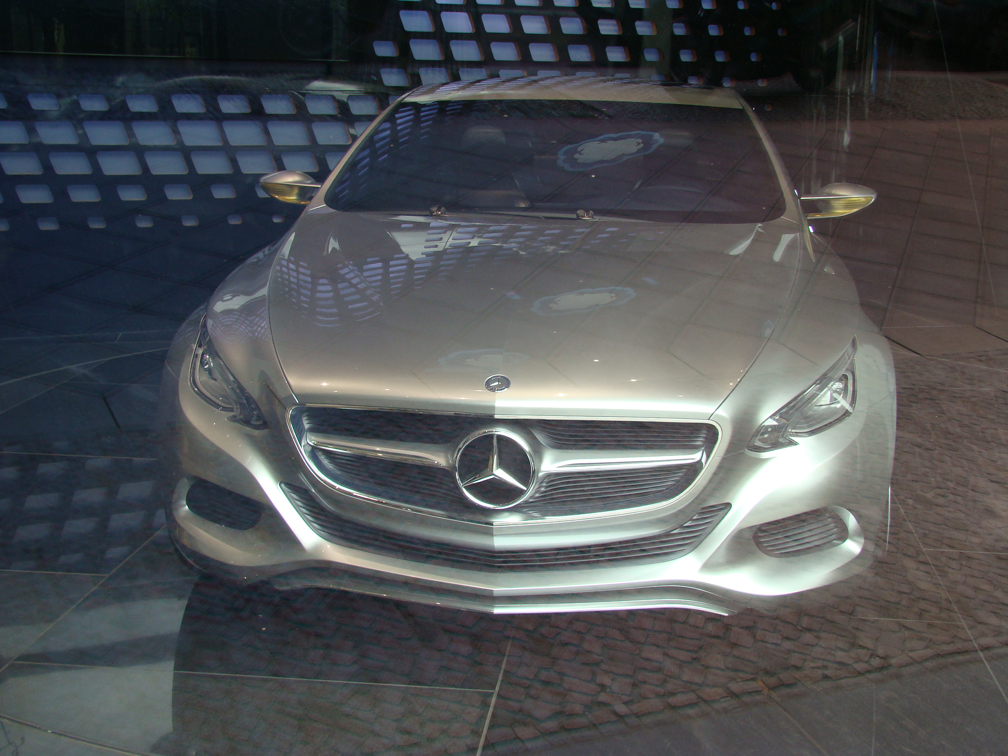 Mercedes-Benz F800